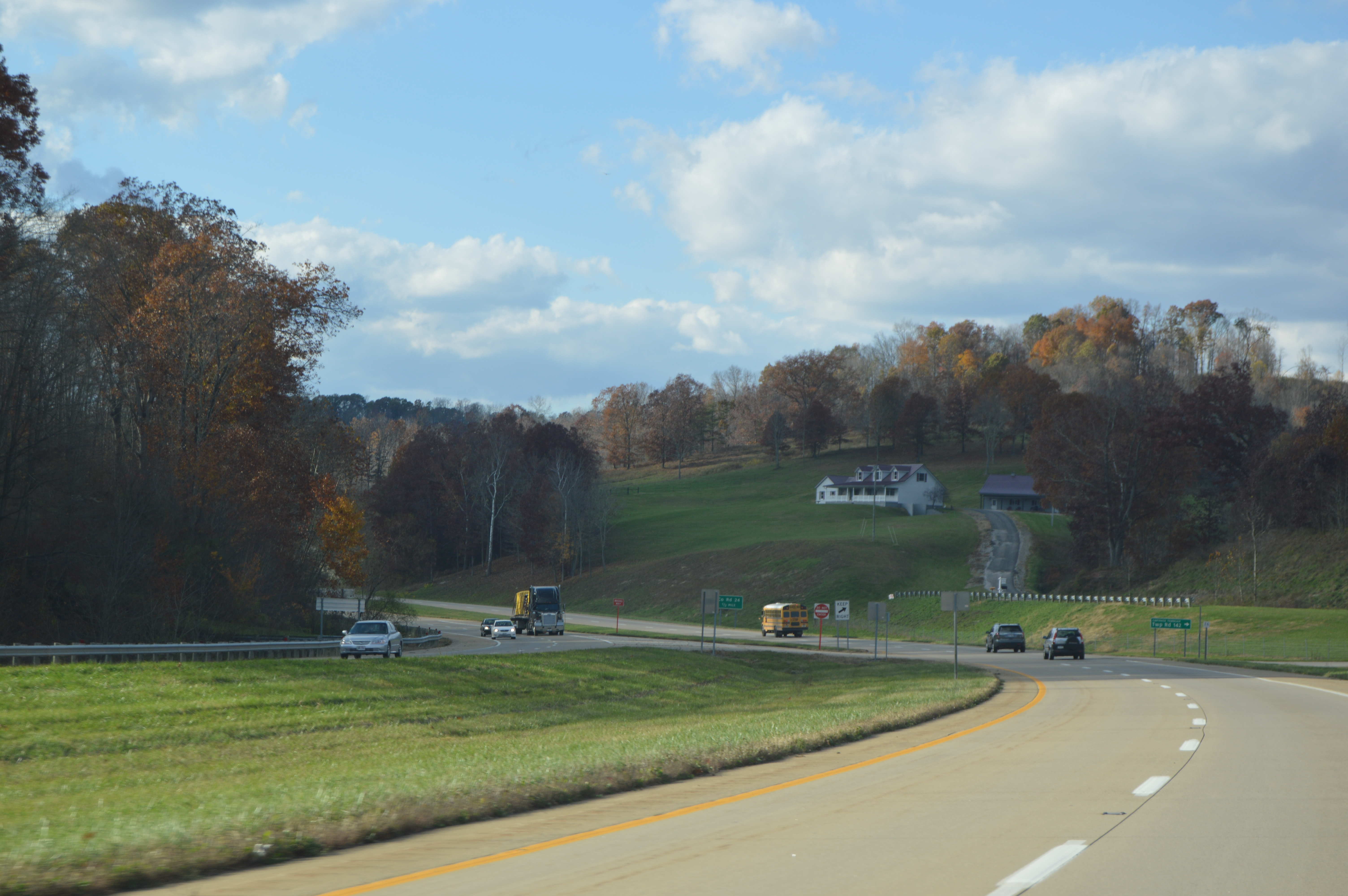 Looking northwestward from the westbound lanes of U.S. Route 50/State Route 32, just southeast of the Township Road 142 intersection, in Carthage Township, Athens County, Ohio, United States.